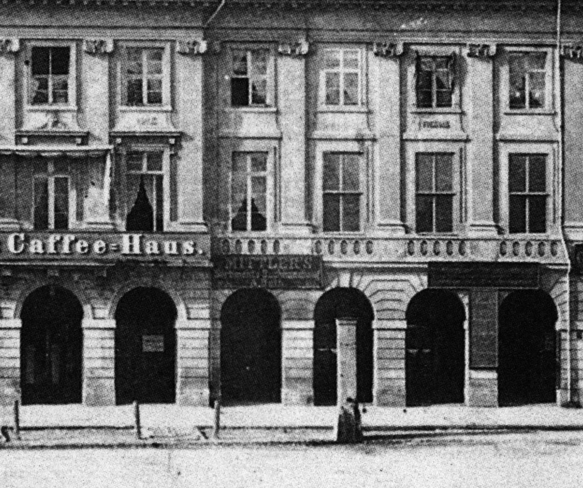 The An der Stechbahn buildings in Berlin's Cölln district, south of the Berlin City Palace.